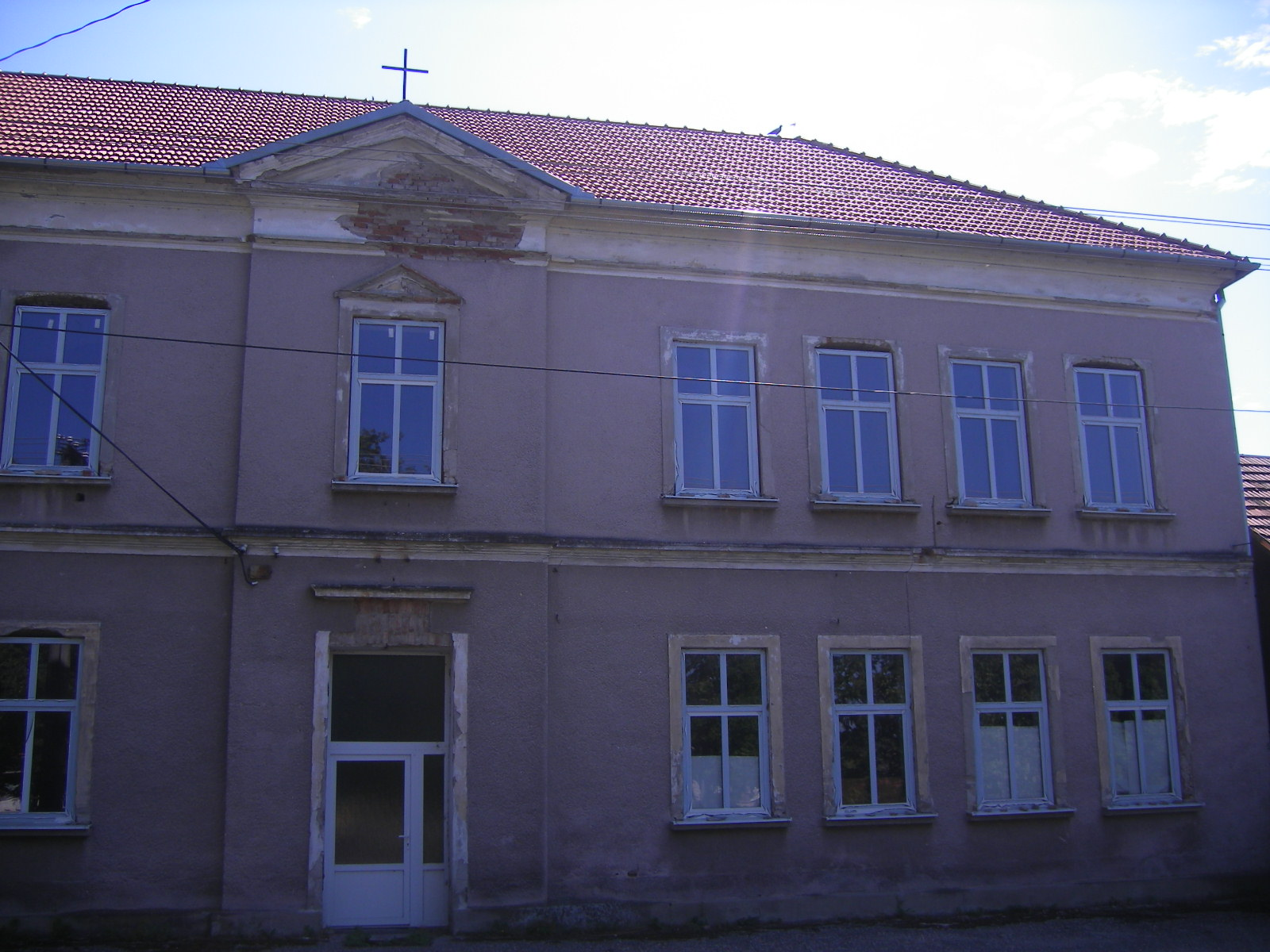 Salka/Ipolyszalka - former school building built in 1907